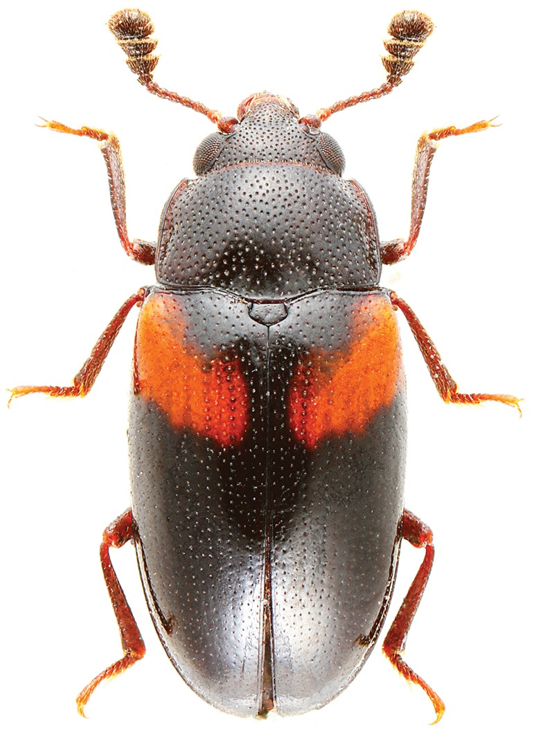 Habitus of Dacne (Xenodacne) hujiayaoi in dorsal view.